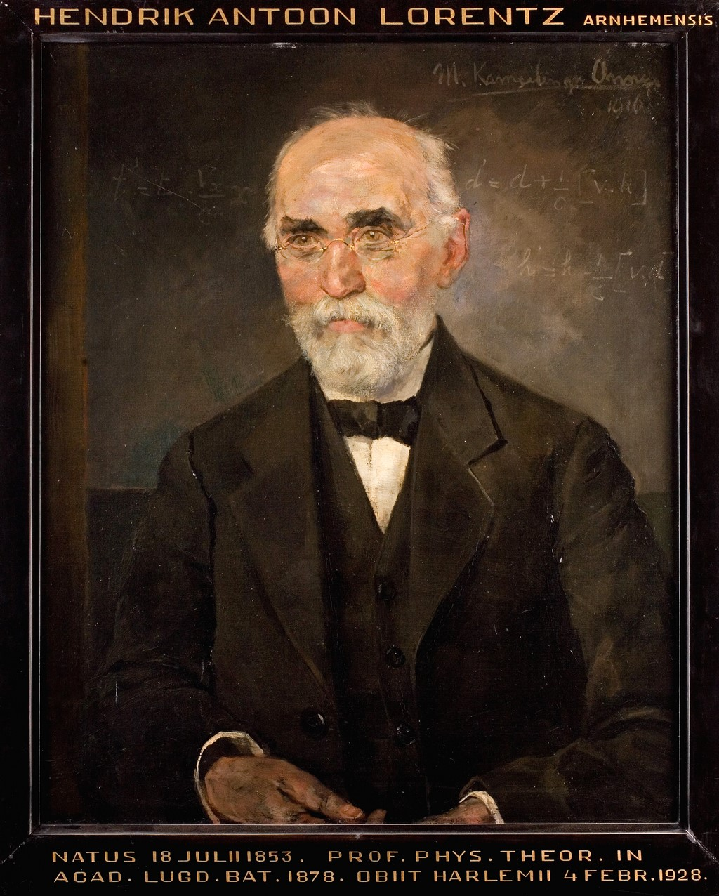 Painting of Hendrik Lorentz by Menso Kamerlingh Onnes. (Latin text:) "Hendrik Antoon Lorentz Arnhemensis / Natus 18 julii 1853. Prof. Phys. Theor. in/Acad. Lugd. Bat. 1878. Obiit Harlemii 4 Febr.1928."